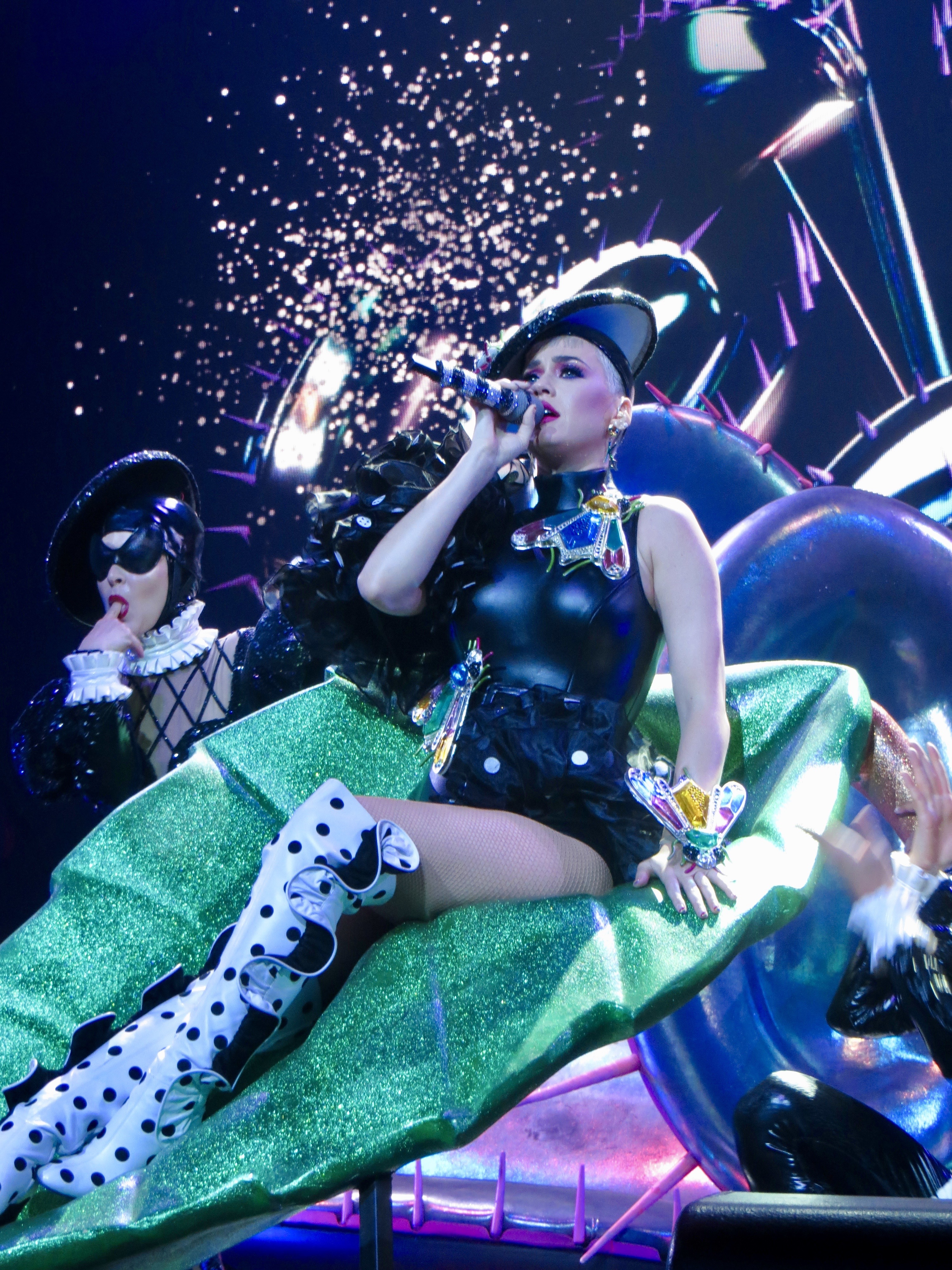 Katy Perry at Witness Tour in Glasgow